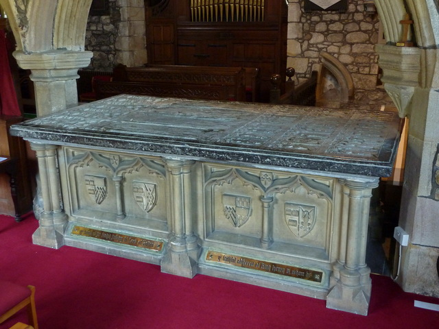 The Tomb of Sir Ralph Pudsay, St Peter and St Paul's Church, Bolton-by-Bowland. Displaying arms of Tunstall, as on font: Sable, three combs argent